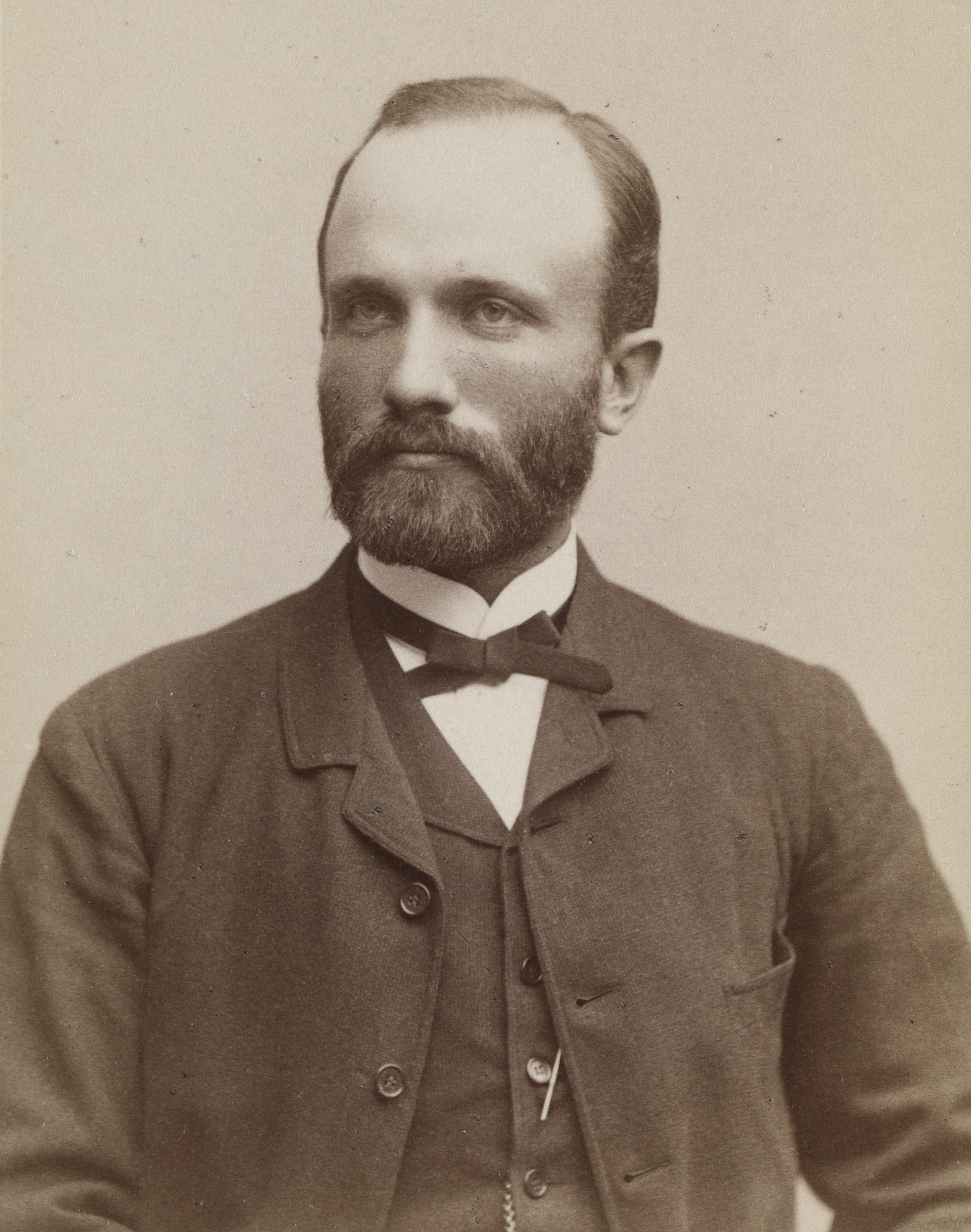 Photograph of the Finnish botanist Fredrik Elfving (1854–1942).